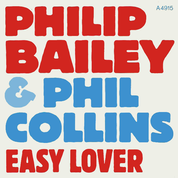 Front cover of "Easy Lover" by Philip Bailey and Phil Collins UK 7-inch vinyl single